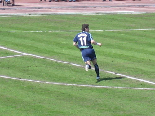 Alexandr Kerzhakov. 2006 Russian Premier League (FC Zenit St.Petersburg v.s. FC Spartak Moscow)